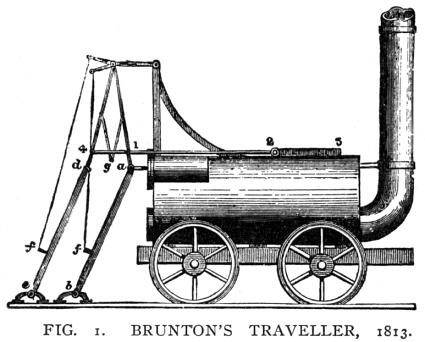 Brunton's "Mechanical Traveller", an early steam locomotive driven by mechanical legs (1813)